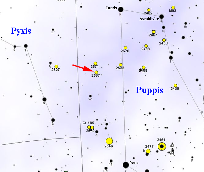 Map of NGC 2567